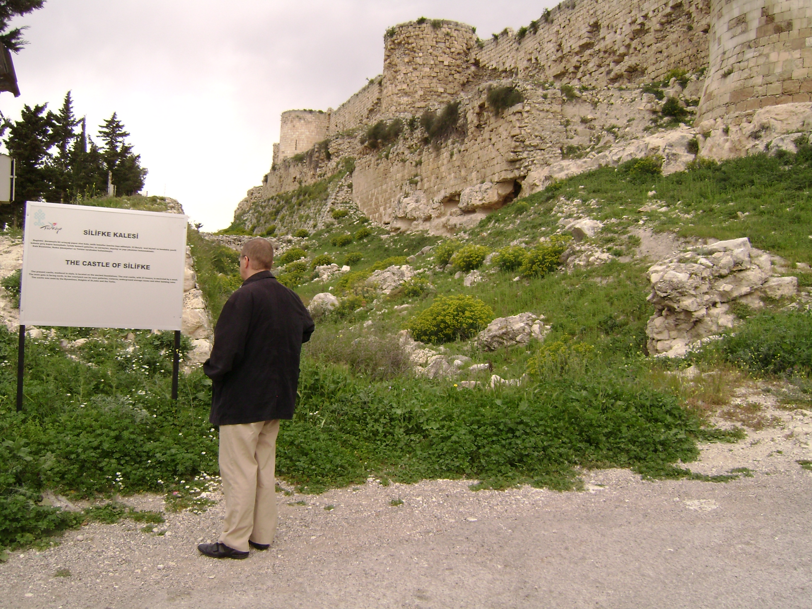 Silifke castel